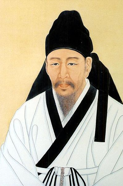 Kim Jong-jik, Korean Joseon Dynastys politicians, writers.